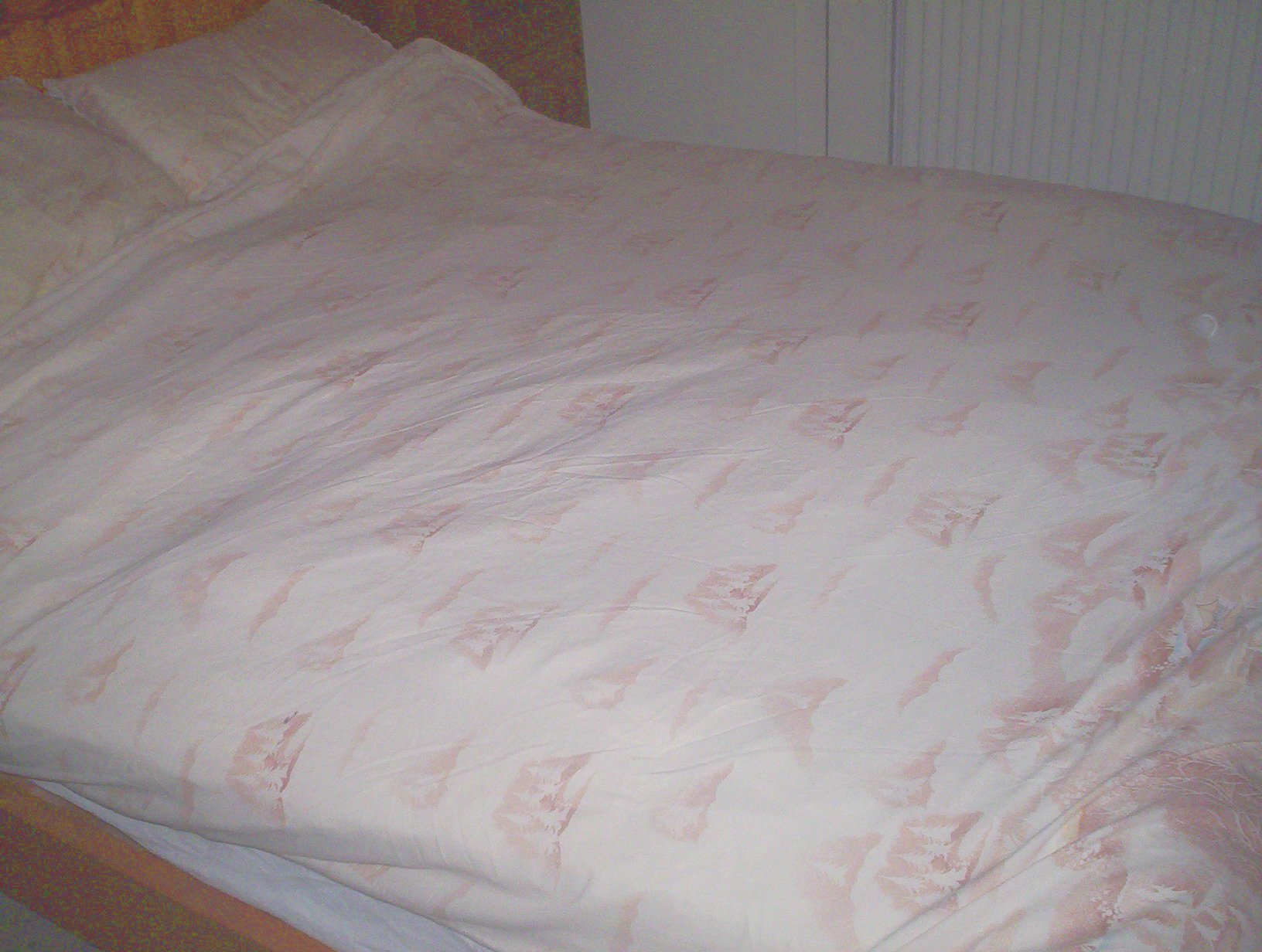 Bed with comforter (or duvet) and duvet cover.